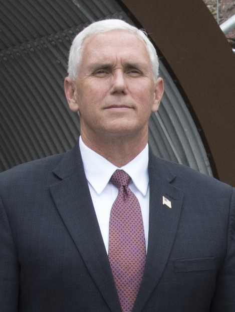 CHEYENNE MOUNTAIN AIR FORCE STATION, Colo. - Vice President Mike Pence alongside Secretary of the Air Force Heather Wilson visit Cheyenne Mountain Air Force Station with Gen. Lori Robinson, North American Aerospace Defense Command/U.S. Northern Command commander, and 21st Space Wing leadership June 23, 2017. As an integral part of the 21st Space Wing, Cheyenne Mountain AFS provides and employs global capabilities to ensure space superiority to defend our nation and allies. (U.S. Air Force photo by Senior Airman Dennis Hoffman)